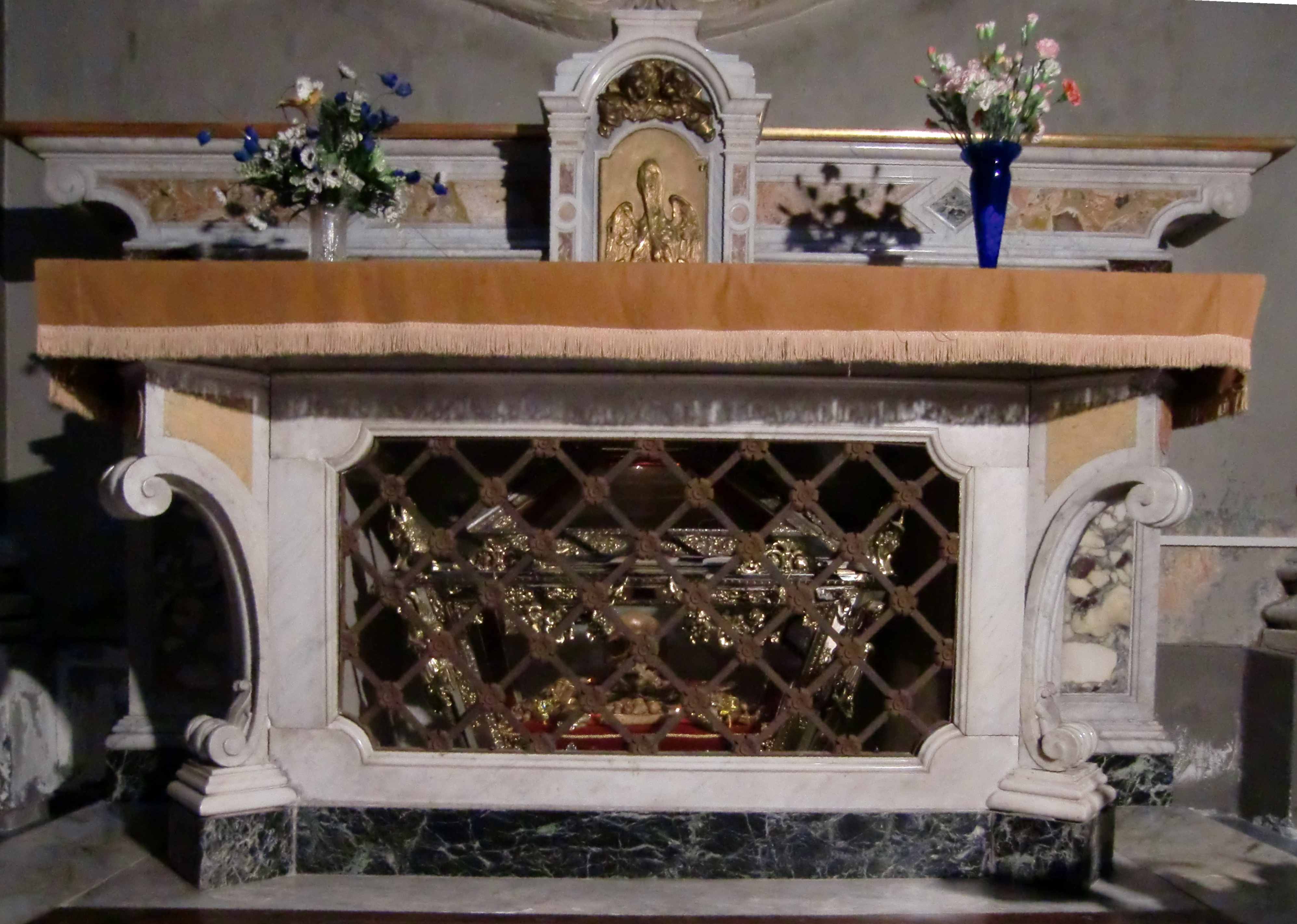 Ivrea, Cathedral, funeral urn of the Blessed Taddeo Mc Carty